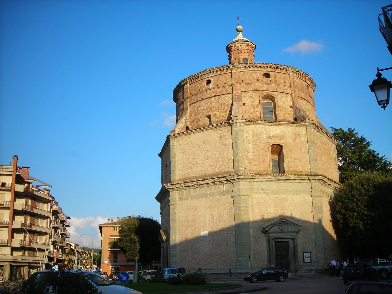 Collegiata of Umbertide, Perugia, Umbria, Italy